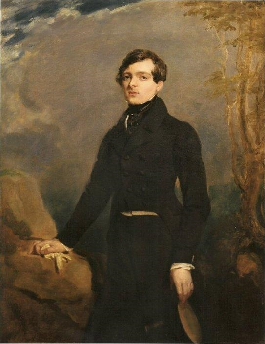 Portrait by Eugène Delacroix of his nephew Charles Étienne Raymond Victor de Verninac, Fall 1825 /Spring 1826